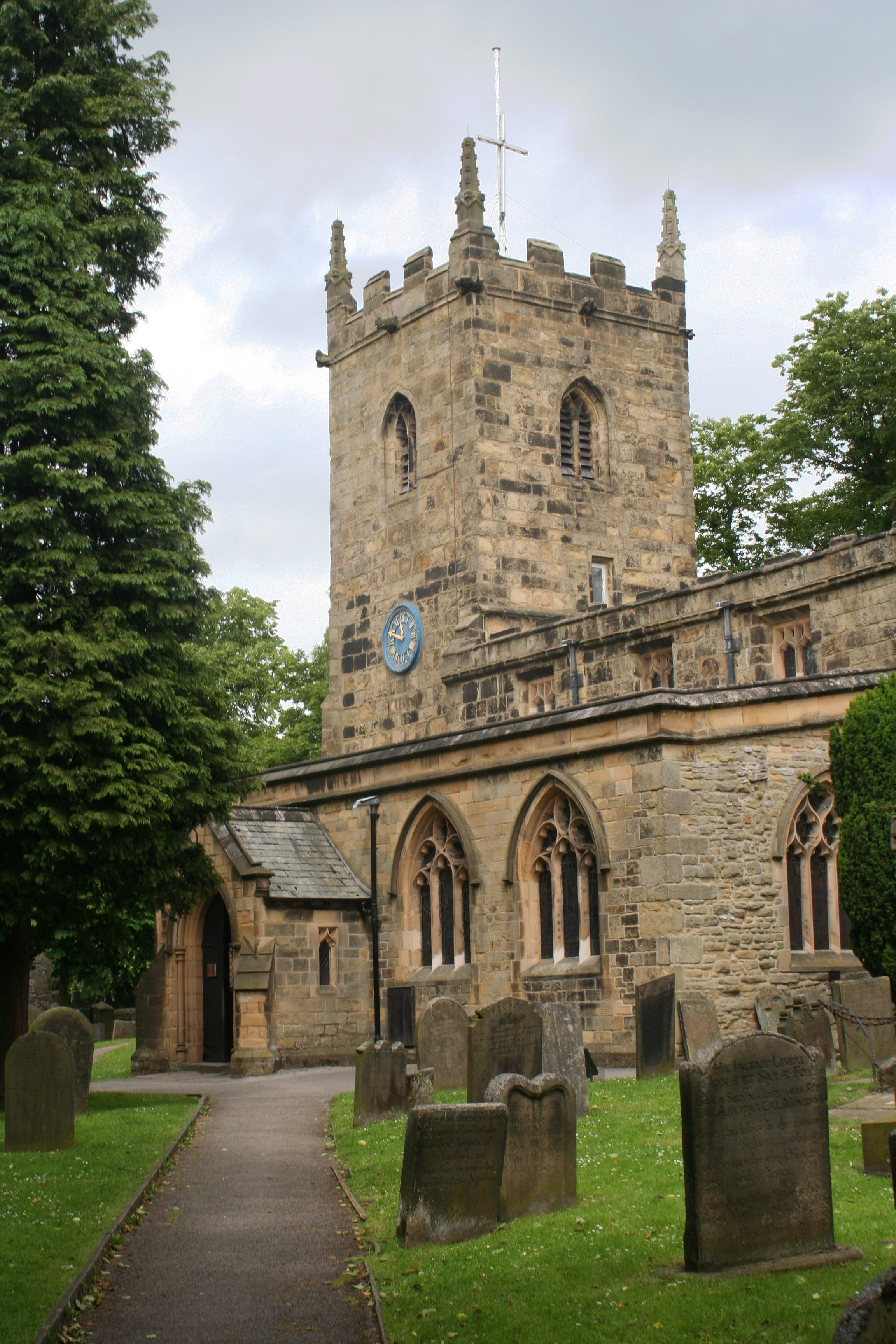 Parish Church in Eyam, Derbyshire, England.